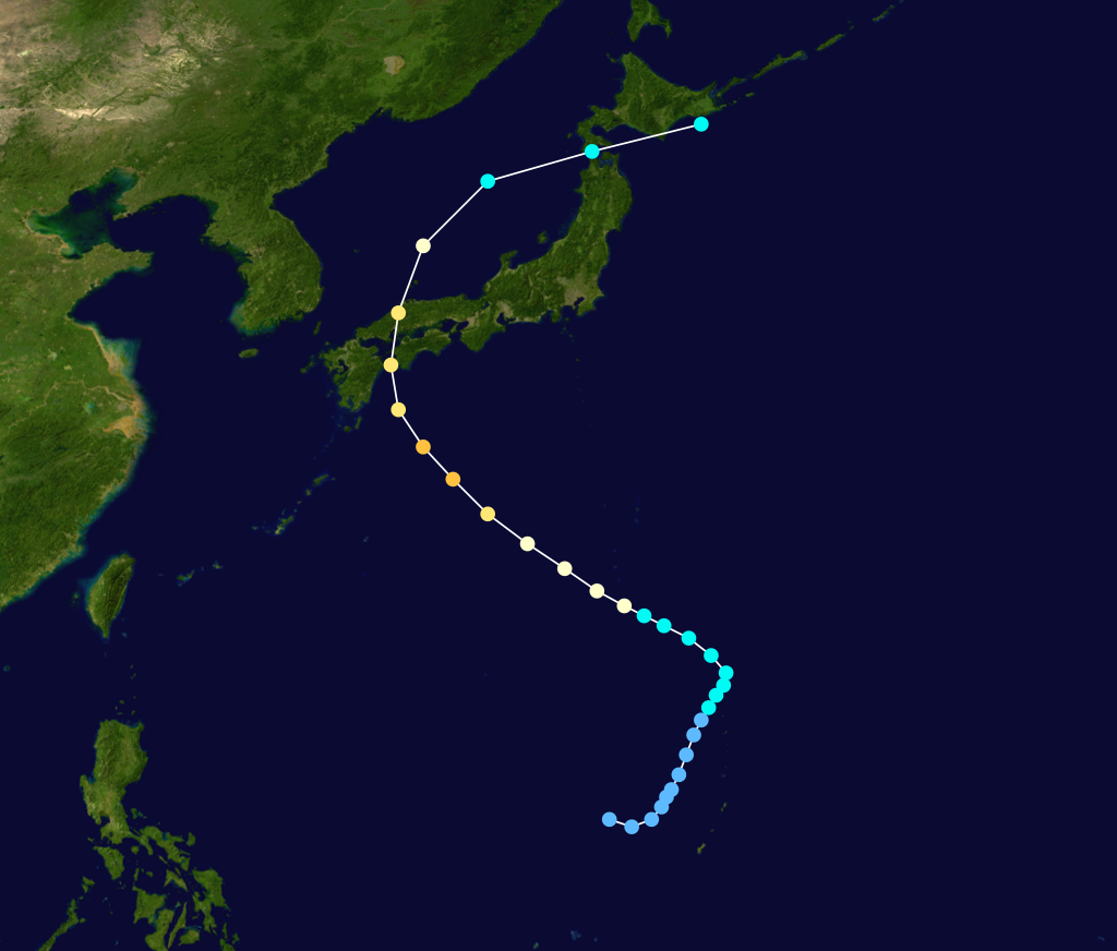 Typhoon Zola 1990 track. Uses the color scheme from the Saffir-Simpson Hurricane Scale.